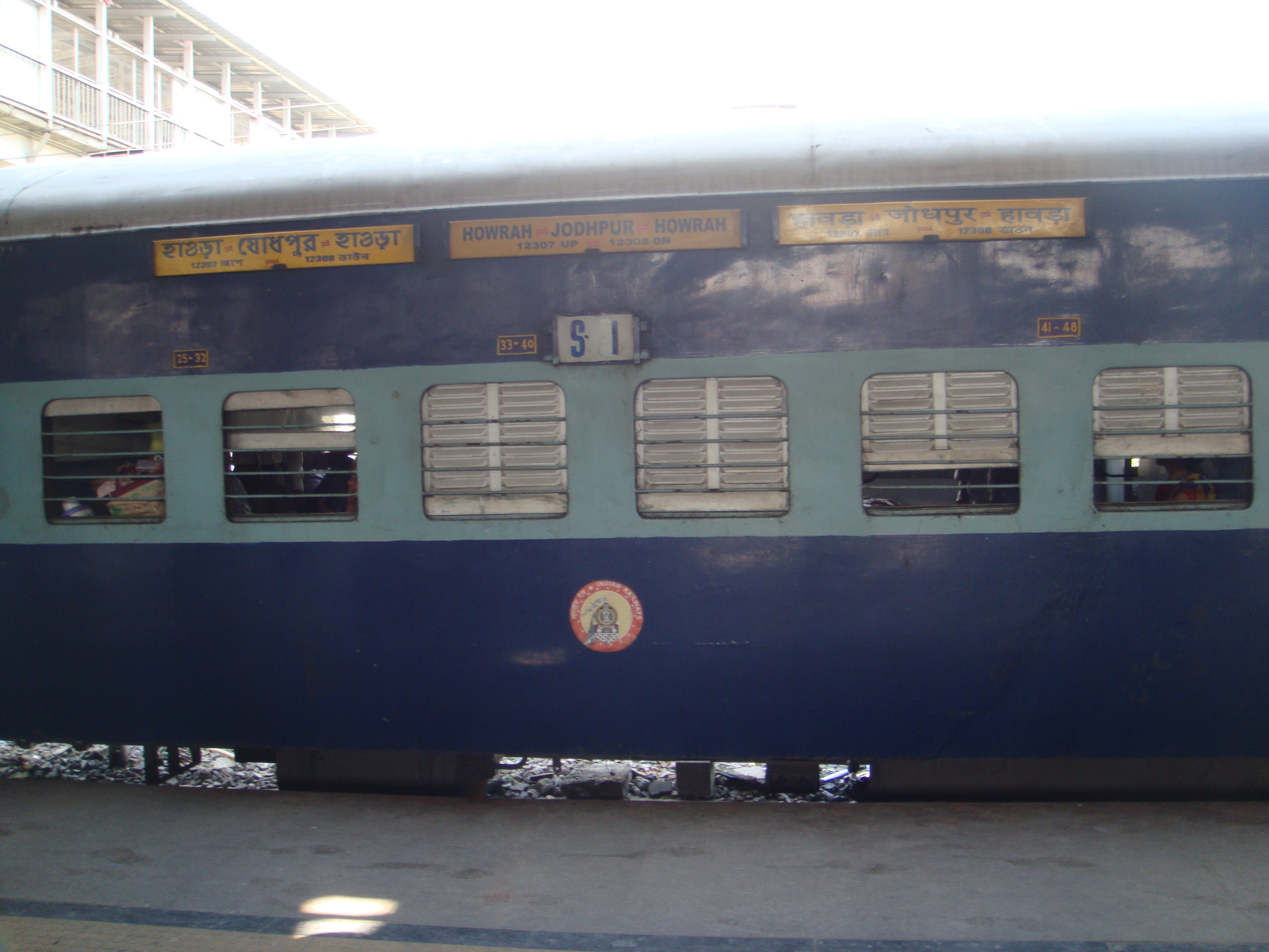 12307 Howrah Jodhpur Express - Sleeper Class